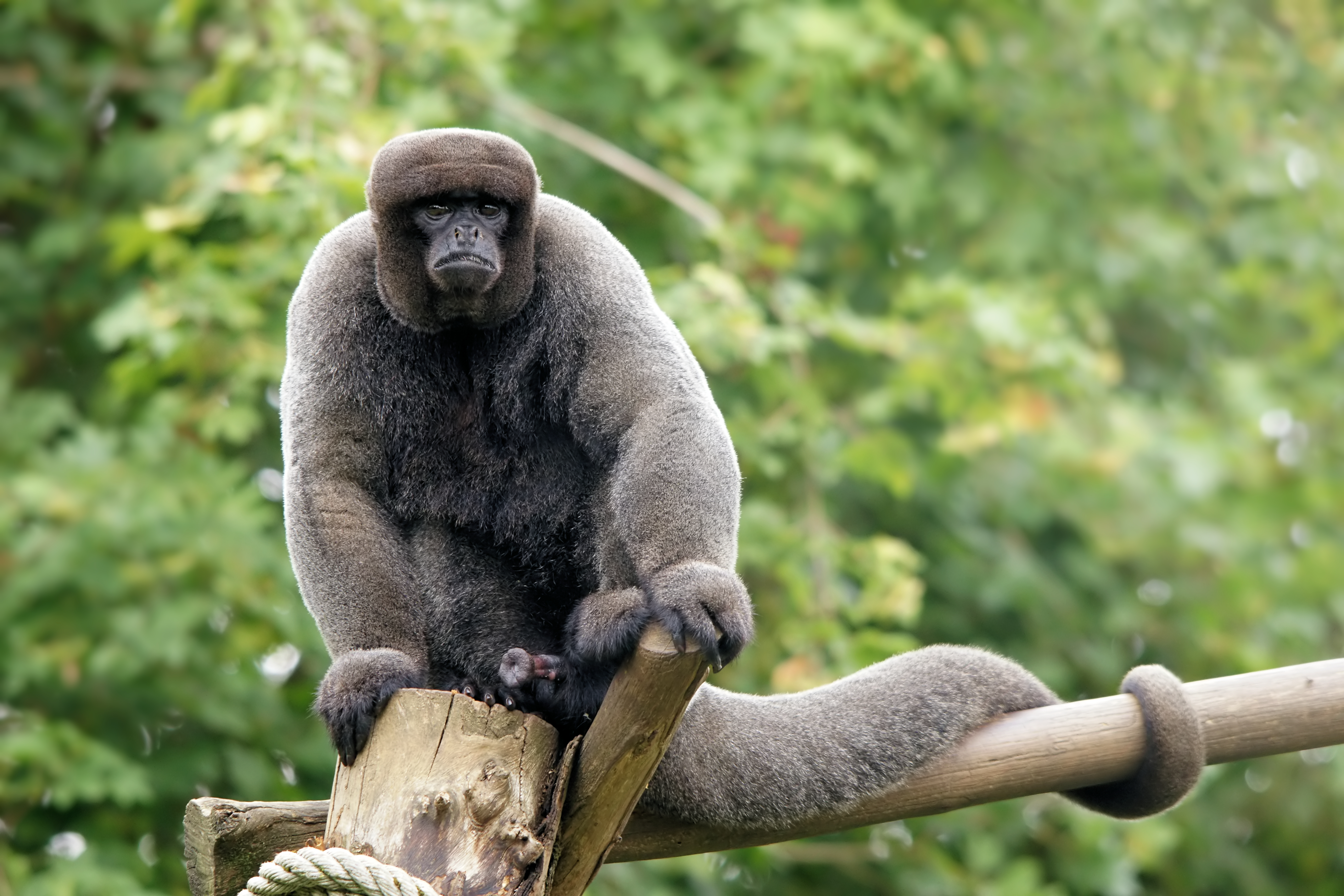 Male Brown Woolly Monkey at La Vallée de Singes, at Romagne (Vienne, Poitou-Charentes), France.